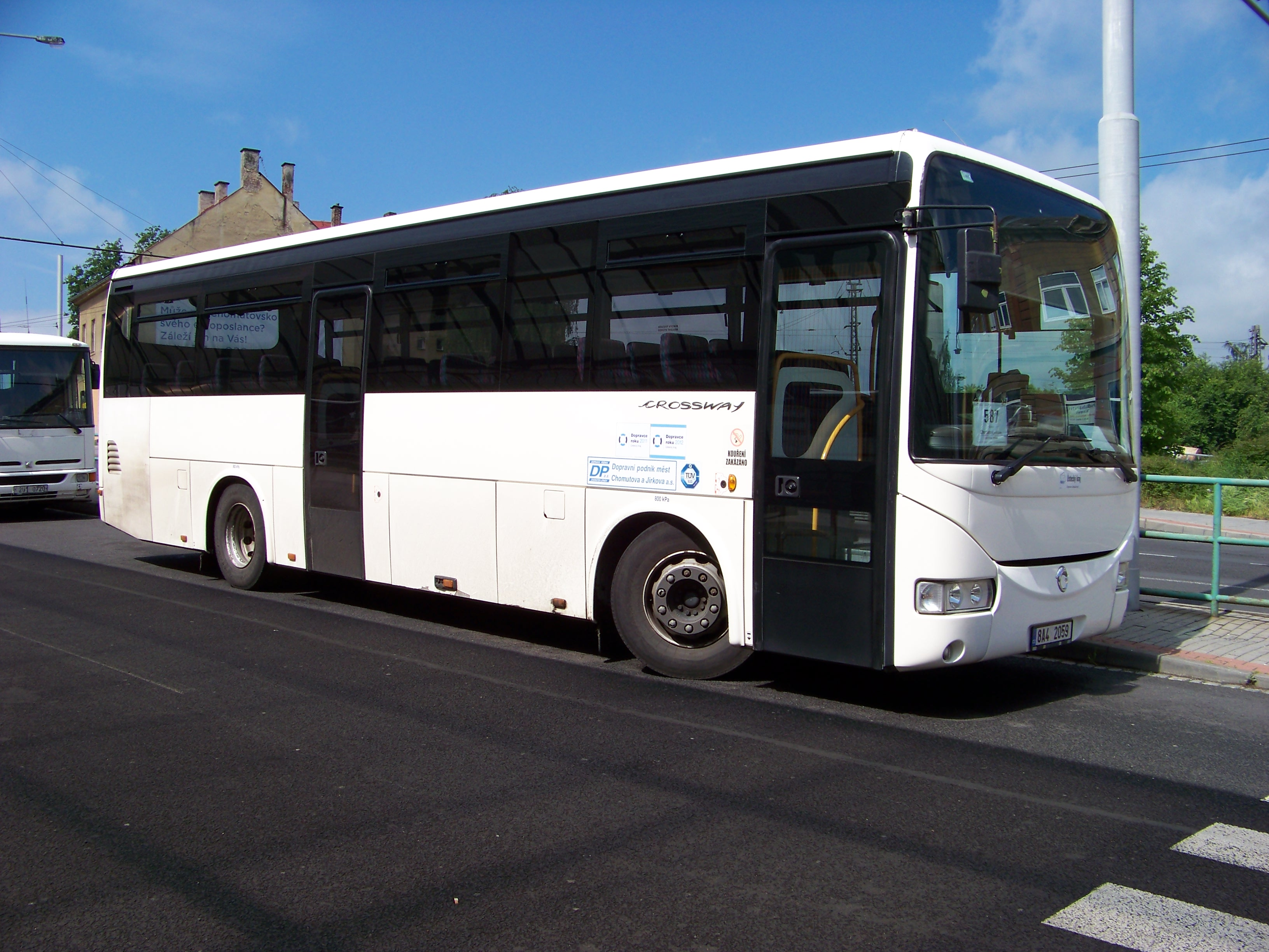 Chomutov, Chomutov District, Ústí nad Labem Region, Czech Republic. A bus station along Wolkerova street, Irisbus Crossway 10,6M of DPMCHJ.